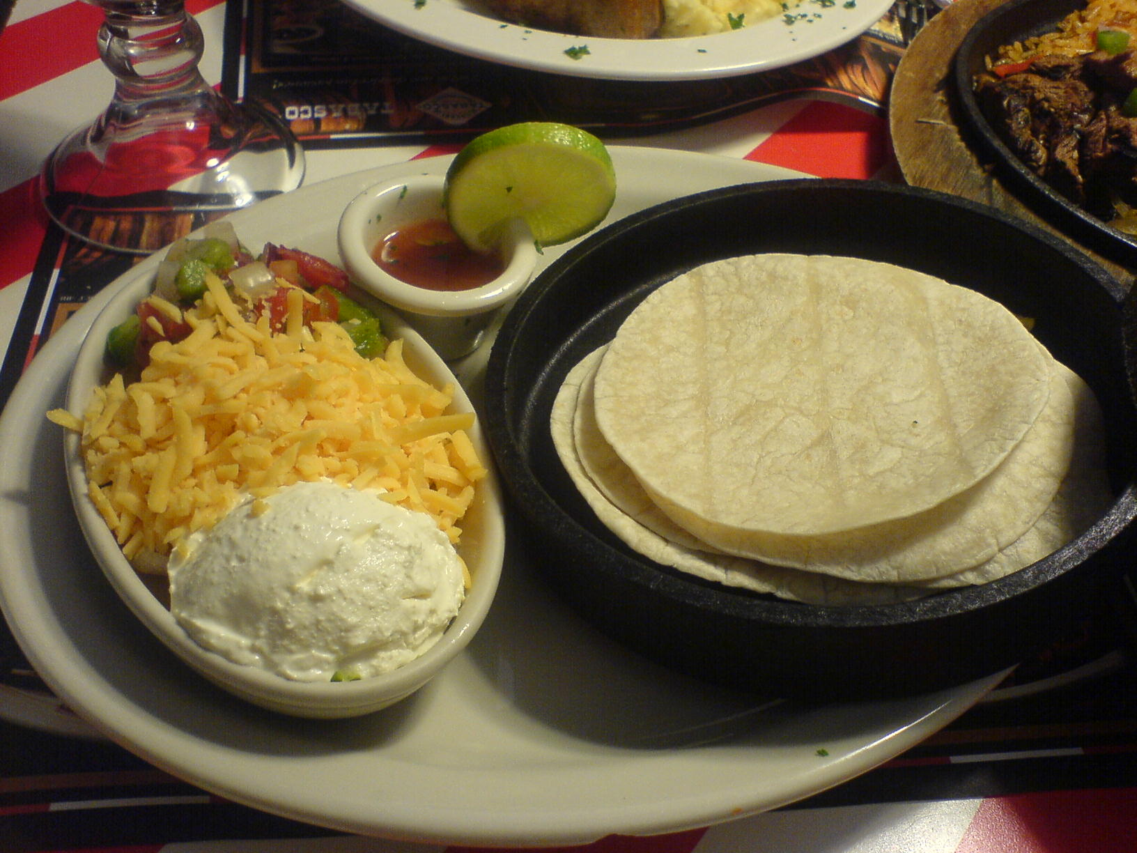 Condiments — sour cream, grated cheese, pico de gallo, and hot sauce — and tortillas for fajitas as served at a T.G.I. Friday's in the Altamira neighborhood of Caracas, Venezuela.